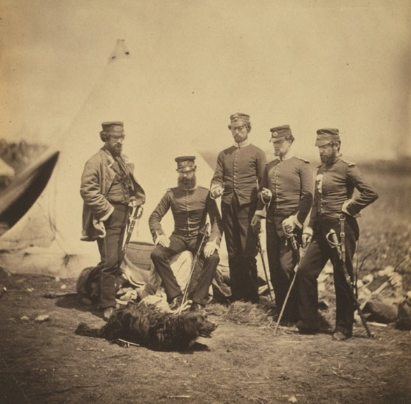 Officers of the 57th Regiment posed before a conical tent with a dog in the foreground.